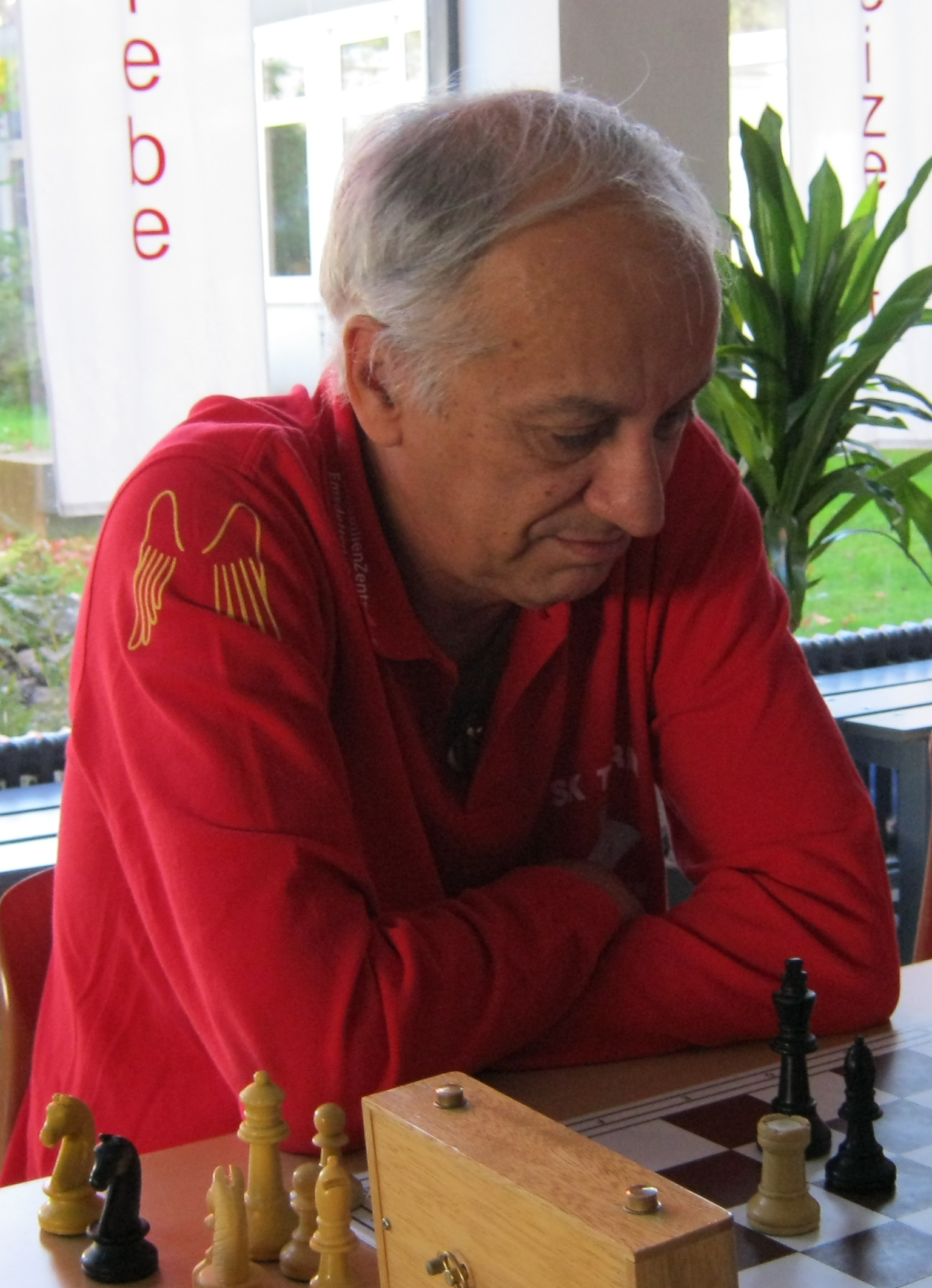 Juan Manuel Bellón López, chess grandmaster from Spain